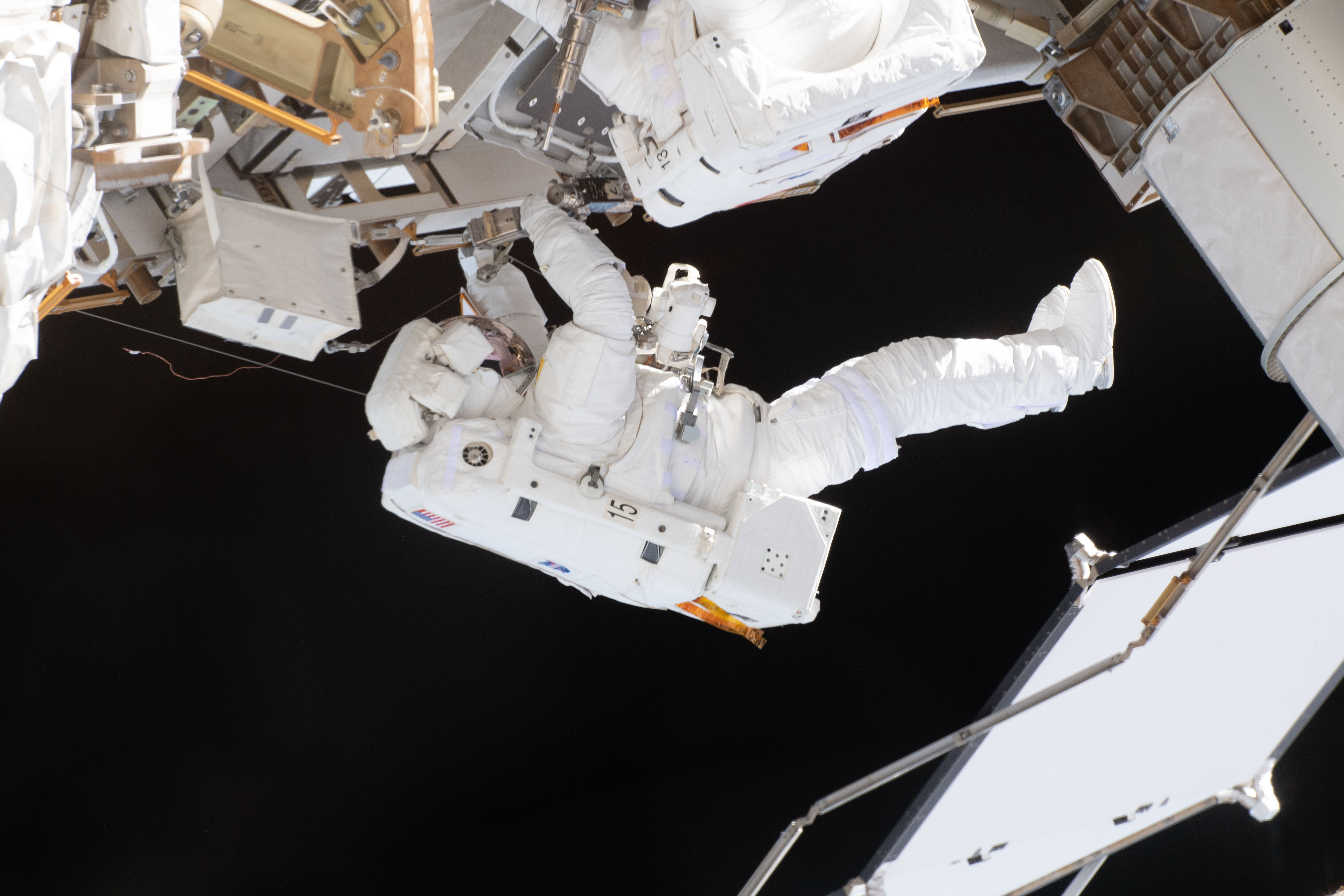 NASA astronaut Nick Hague, in his white U.S. spacesuit with no stripes, is contrasted by the blackness of space during a six-hour, 39-minute spacewalk to upgrade the International Space Station's power storage capacity. This was Hague's and NASA astronaut Anne McClain's (out of frame) (partly visible at top) first spacewalk.